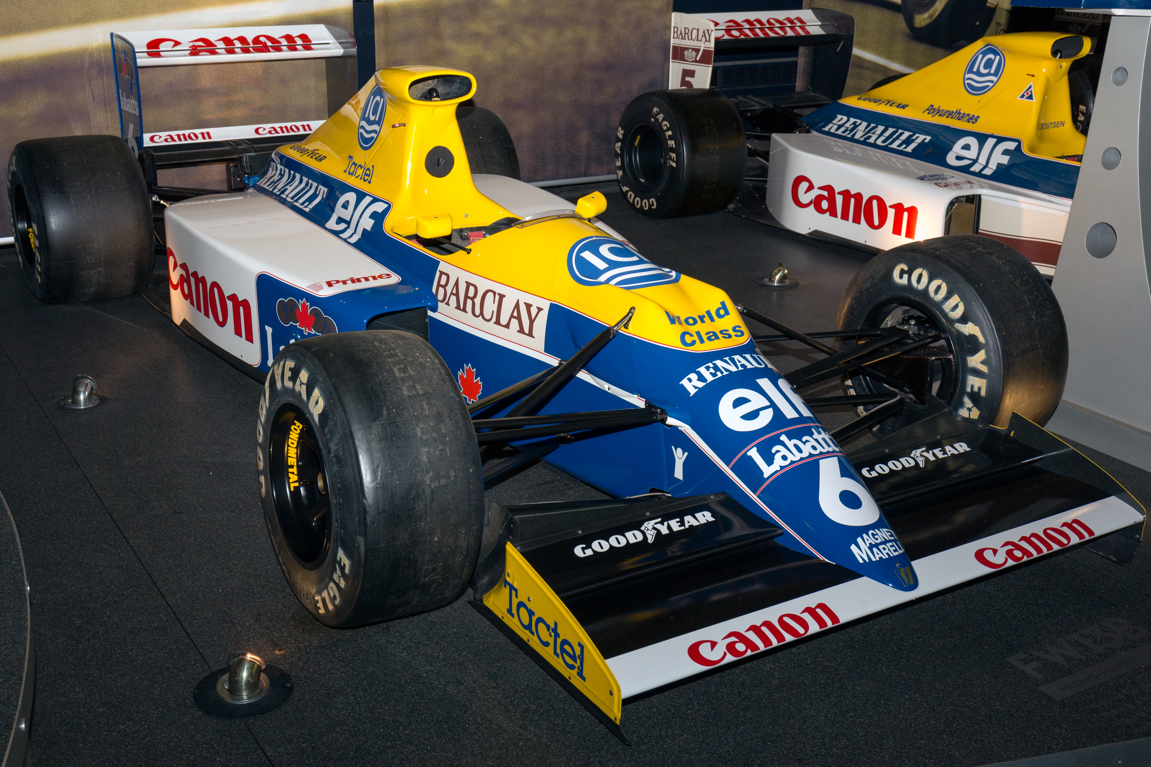 Williams Conference Centre (Grove): Williams FW13B of Riccardo Patrese